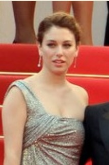 Blanca Suarez: Cast member of 'La Piel que habito' at the Cannes film festival 2011